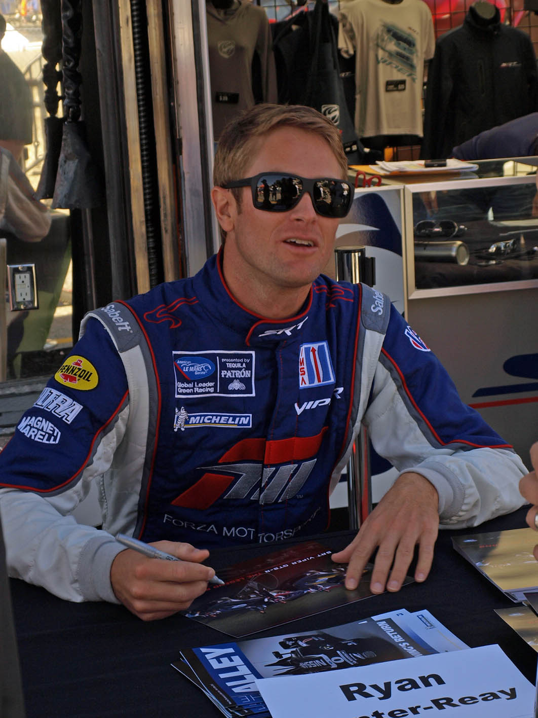 Ryan Hunter-Reay signing autographs at the 2012 Petit Le Mans